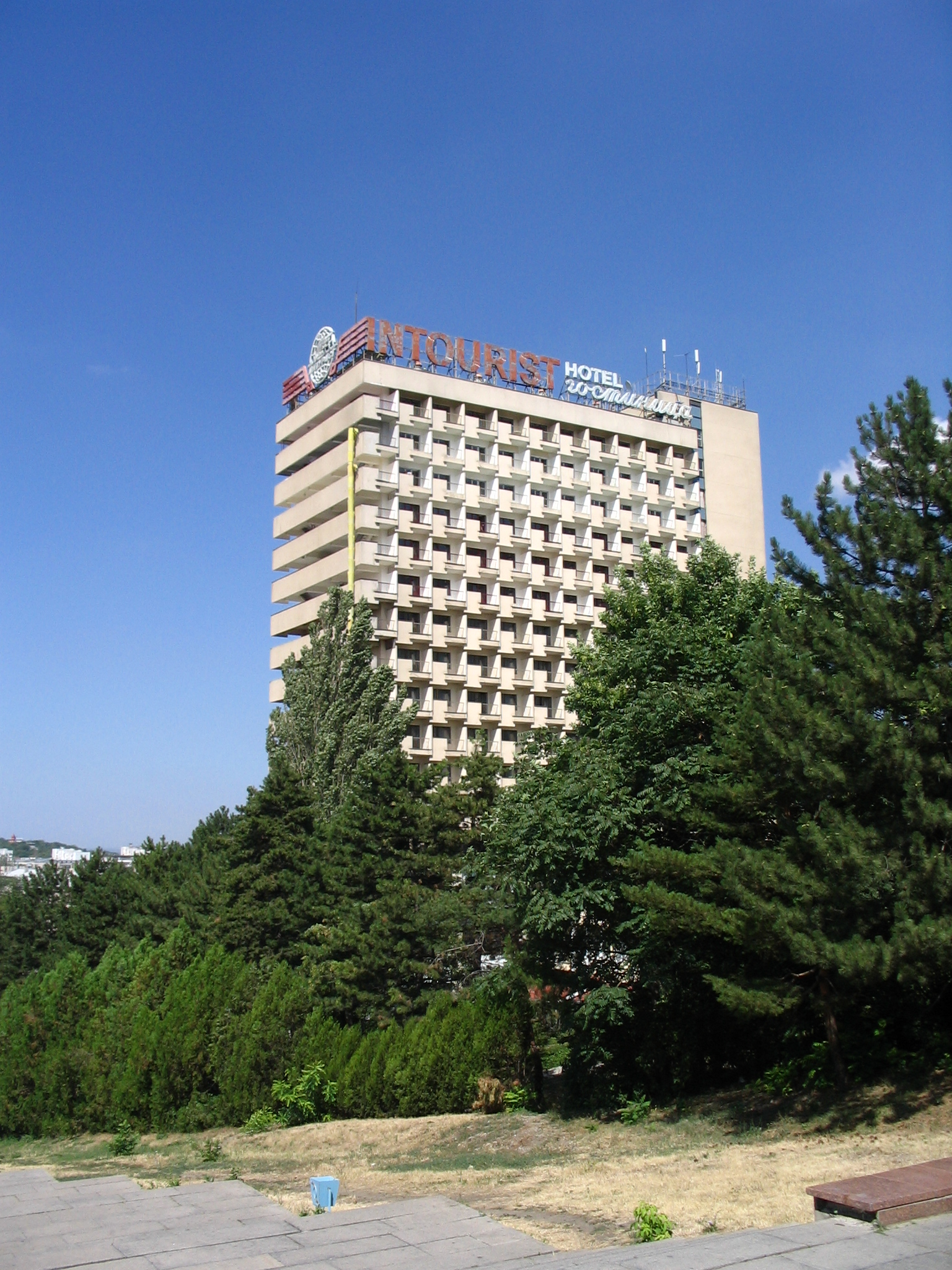 Pytigorsk